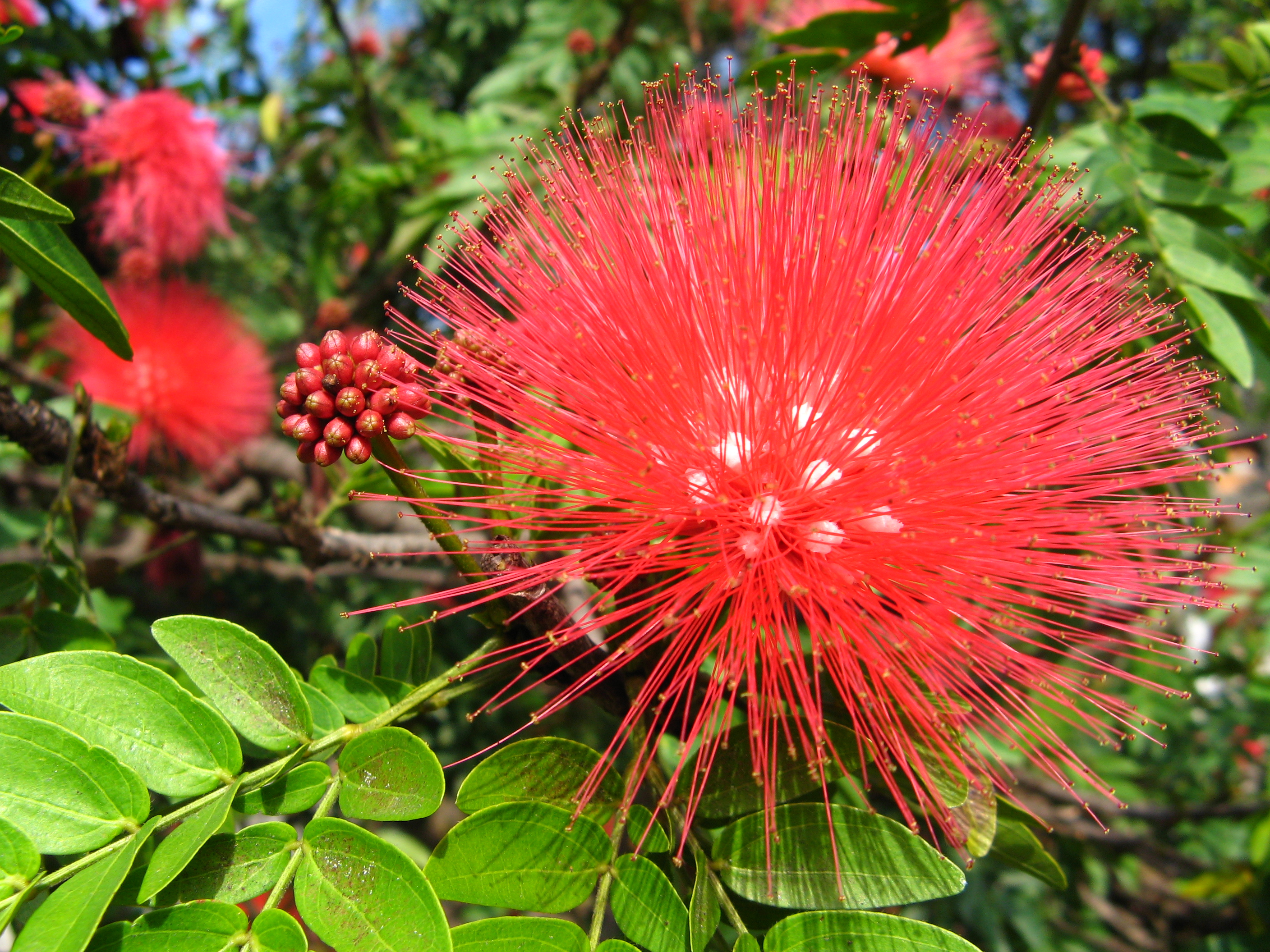 Sao Paulo Brazil (Calliandra dysantha), flower symbol of the Brazilian Savannah, Mimosaceae/Mimosa".